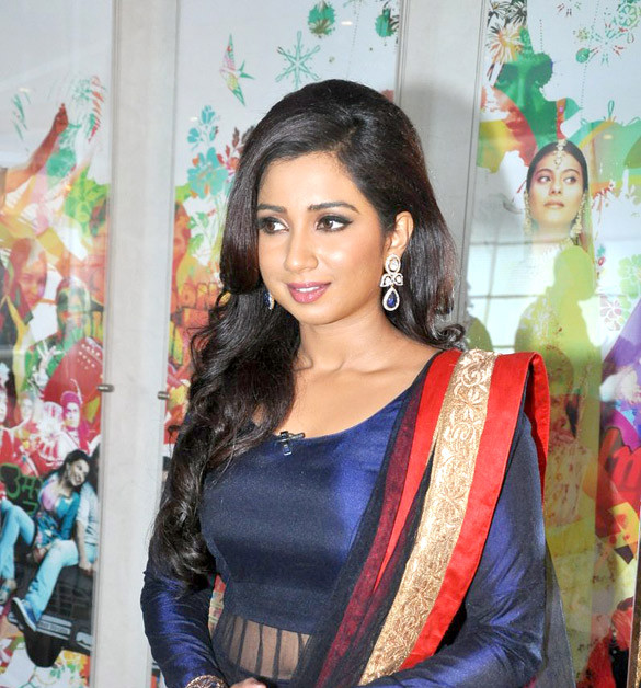 Shreya Ghoshal on the sets of Indian Idol Junior Season 1